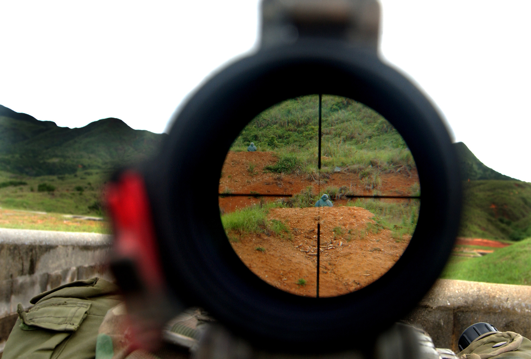 Camp Hansen, Okinawa, Japan (May 21, 2004) - A Special Reaction Team (SRT) member looks through the scope of a sniper rifle to help enlarge targets. Training targets are often hundreds of meters away and using the sniper rifle scope ensures the sniper has a clear shot at his intended target.